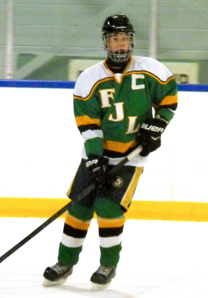 This photo was taken by Devan Mighton during the 2014-15 WECSSAA season.